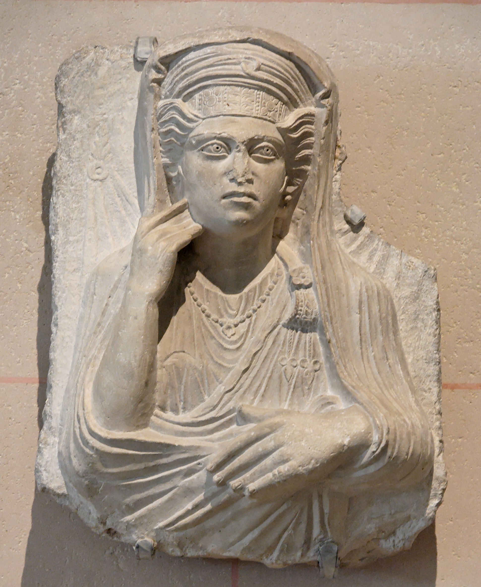 Funerary relief from Palmyra. Stone, early 2nd century CE.